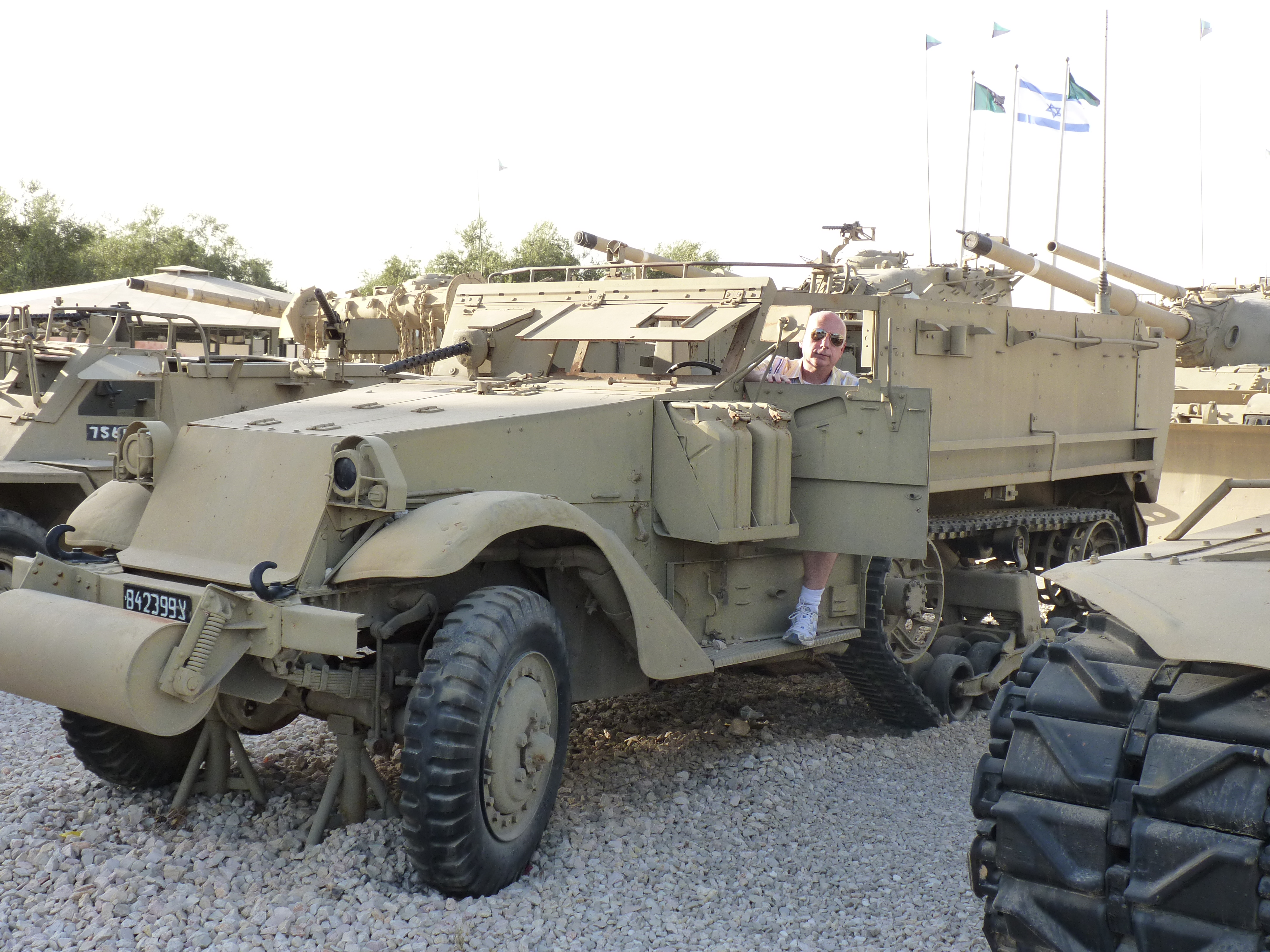 P1100569 Latrun - Armored Corps Museum